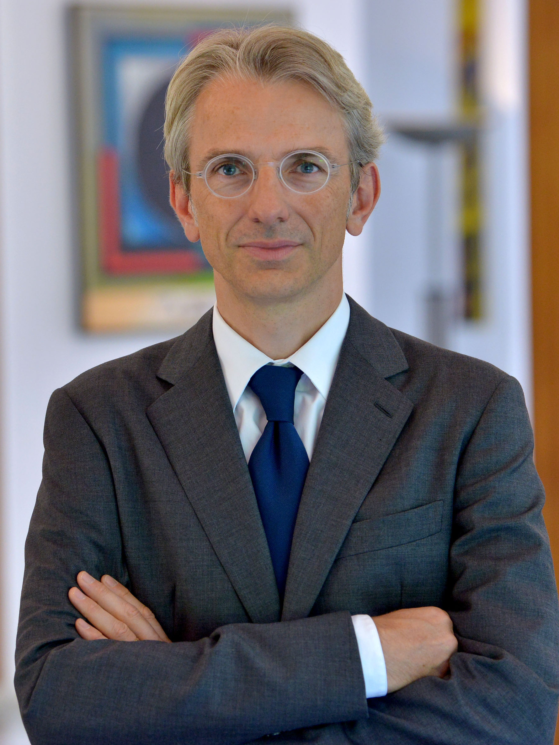 This is the official portrait of the current Ambassador of France to India, H.E. Mr Emmanuel Lenain.